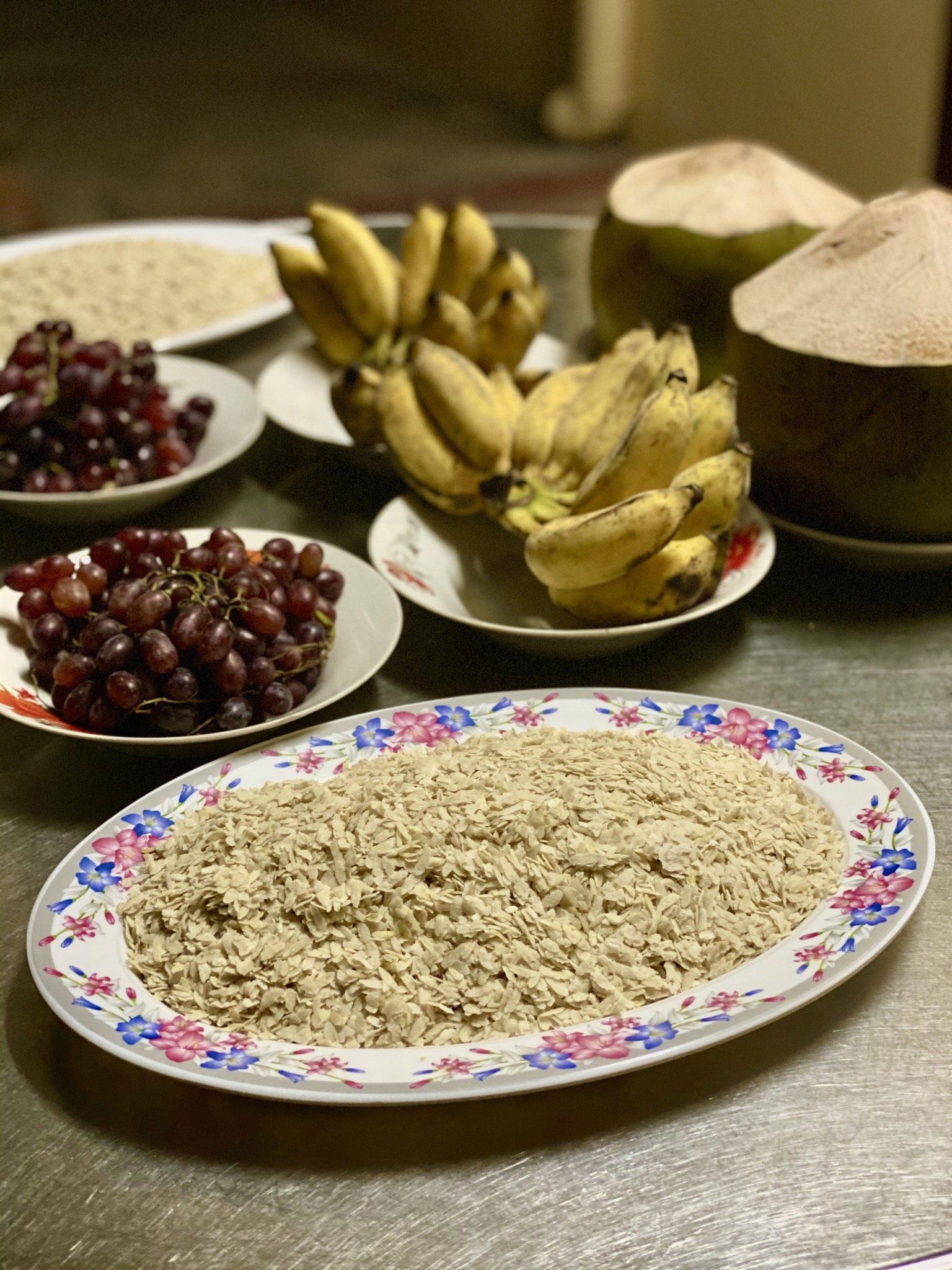 Picture of the traditional rice dish served with banana, coconut, and sometimes grapes on the feast of the Water Festival (Bon Om Touk) in Cambodia.